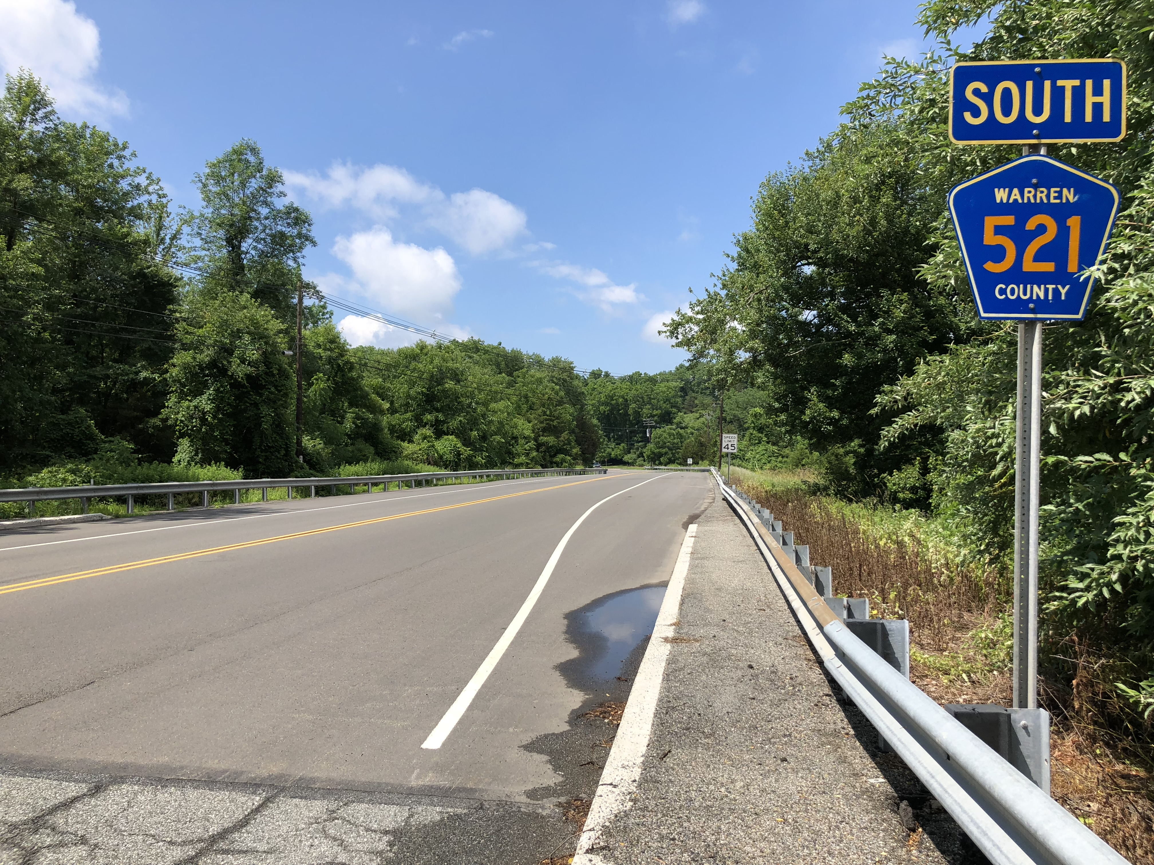 View south along Warren County Route 521 (Hope-Blairstown Road) just south of Interstate 80 in Hope Township, Warren County, New Jersey